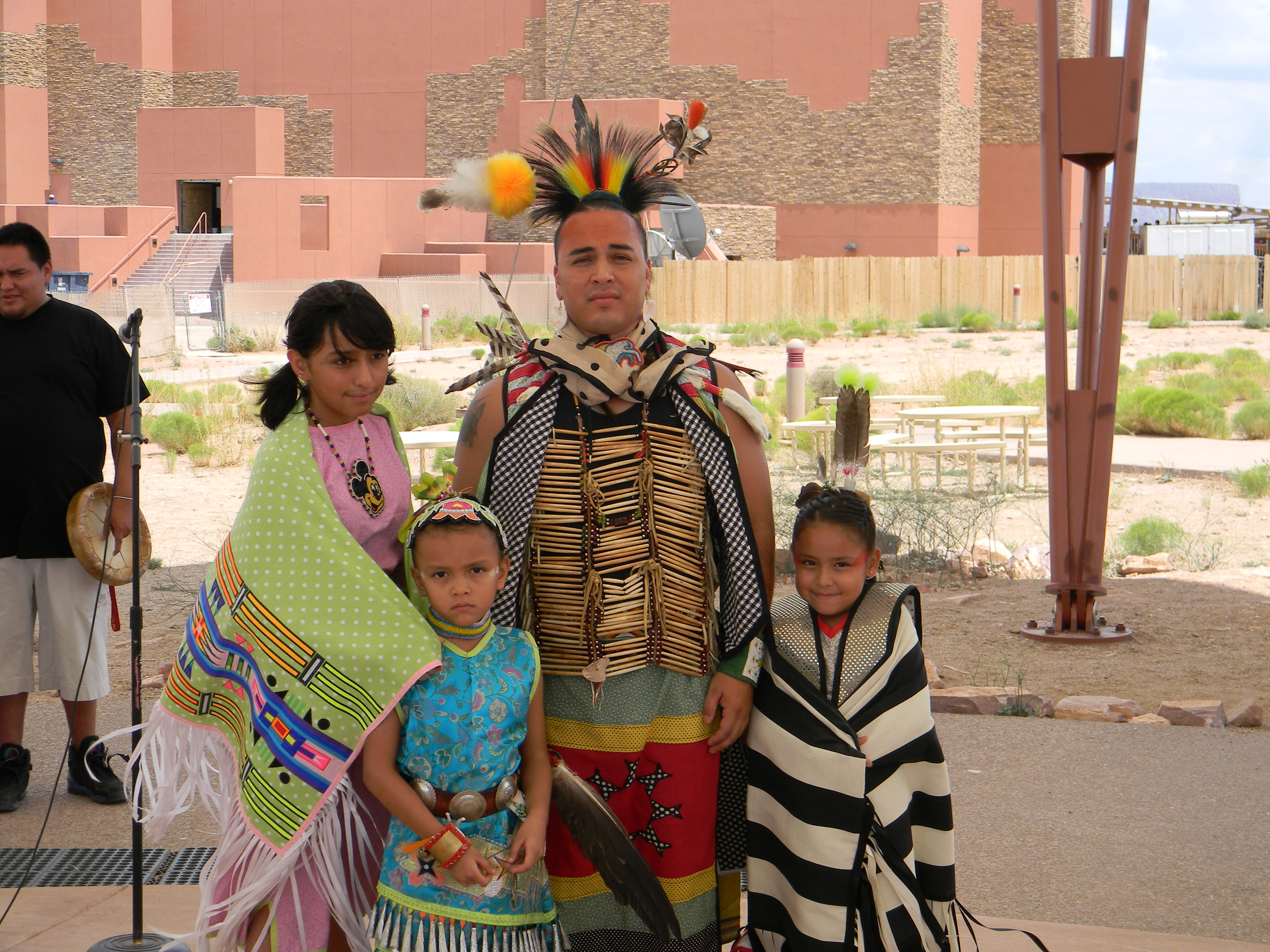 Hualapai family in traditional costume from Arizona (Canyon).